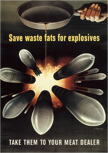 Save Waste Fats for Explosives by Henry Koerner, 1943 Printed by the Government Printing Office for the Office of War Information NARA Still Picture Branch (NWDNS-44-PA-380)